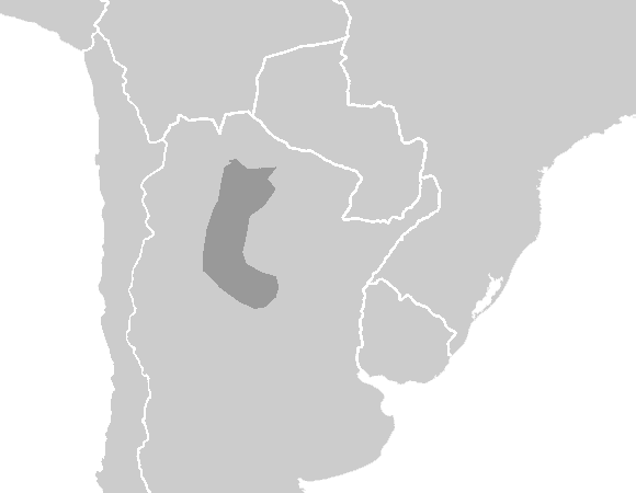 Approximate historical area where Tonocoté, Lule and Vilela peoples have been documented since 17th century.